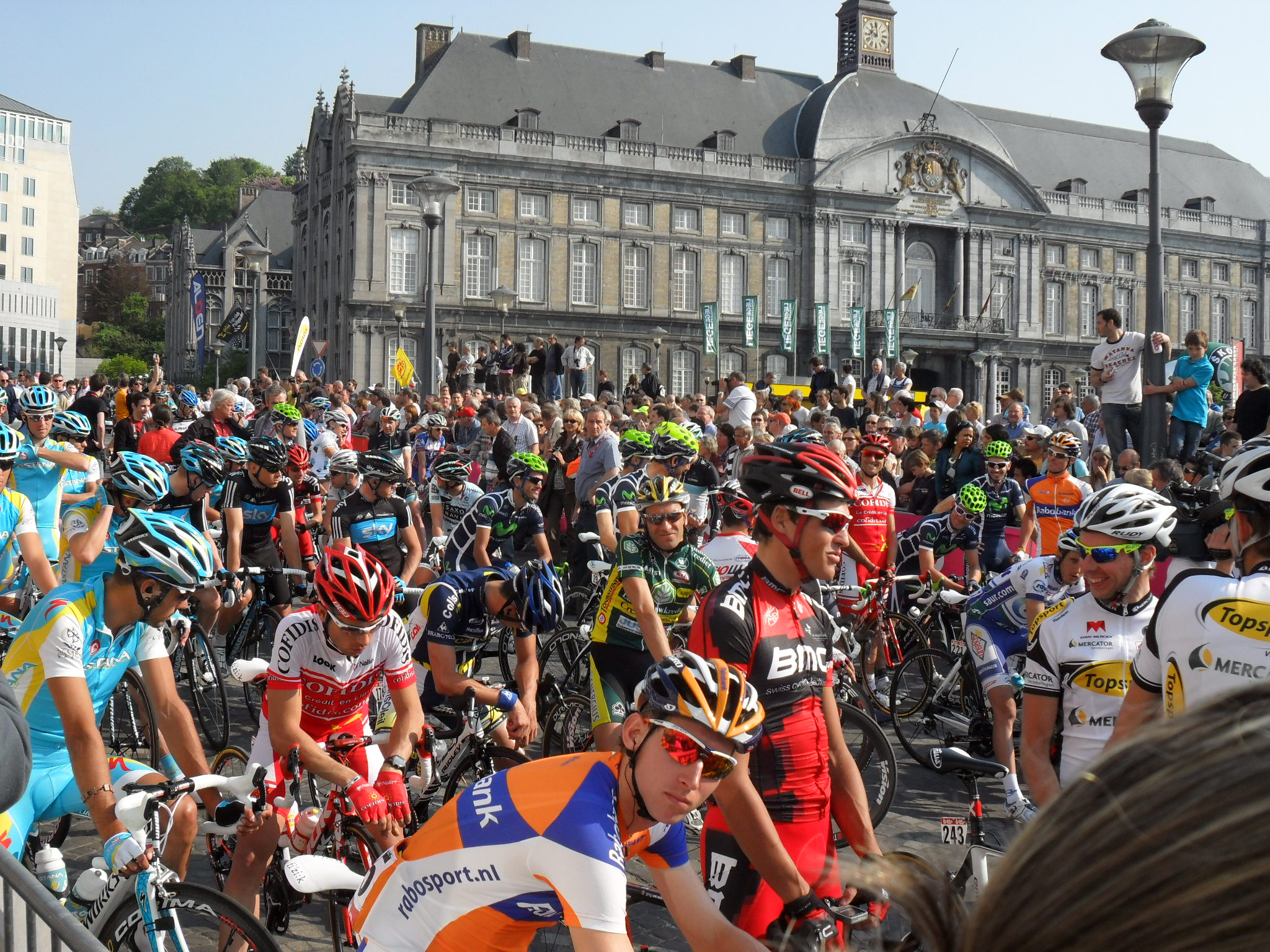 Liège-Bastogne-Liège 2011 start in front of the Palais des Princes-Évêques de Liège